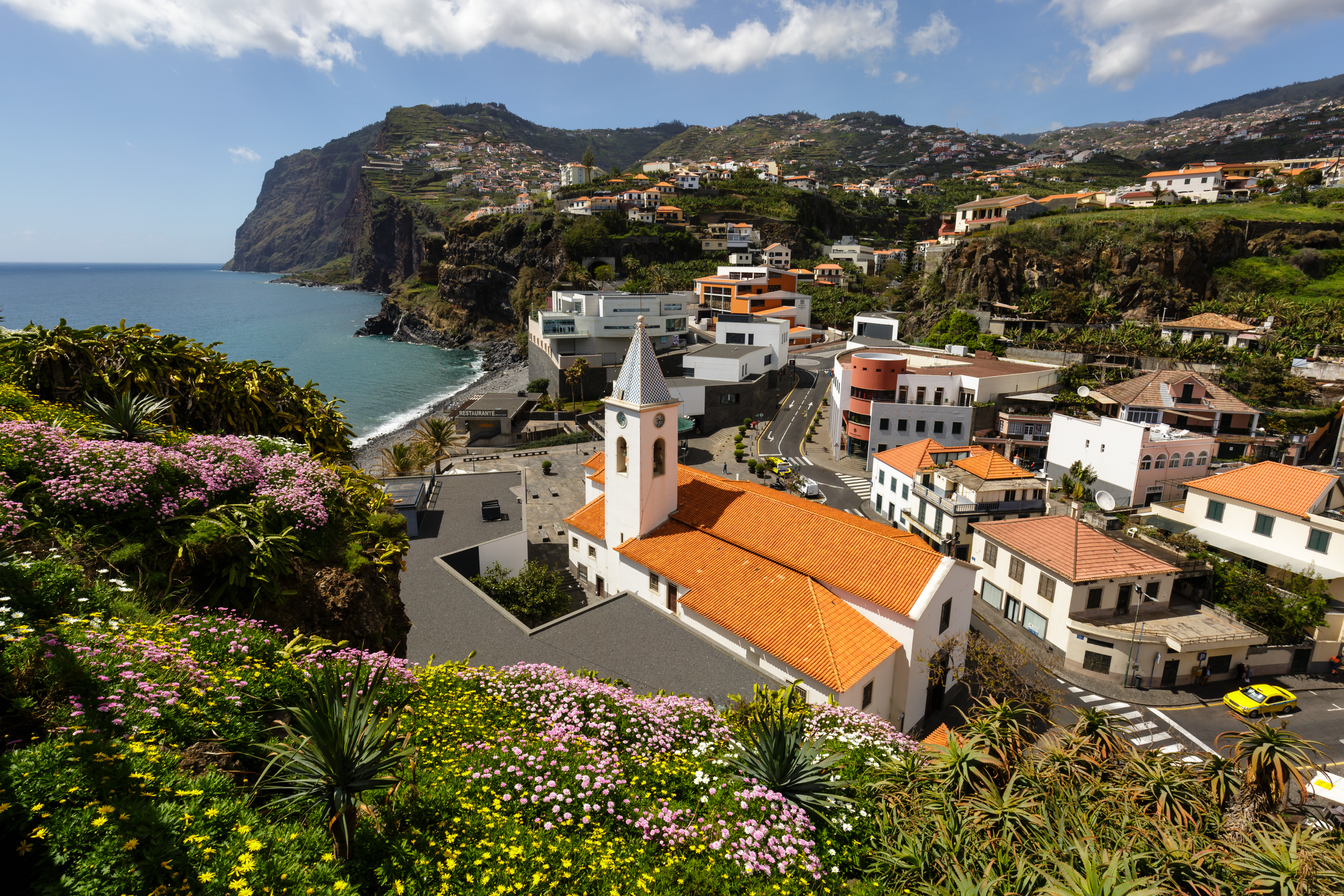 Camara de Lobos, Madeira